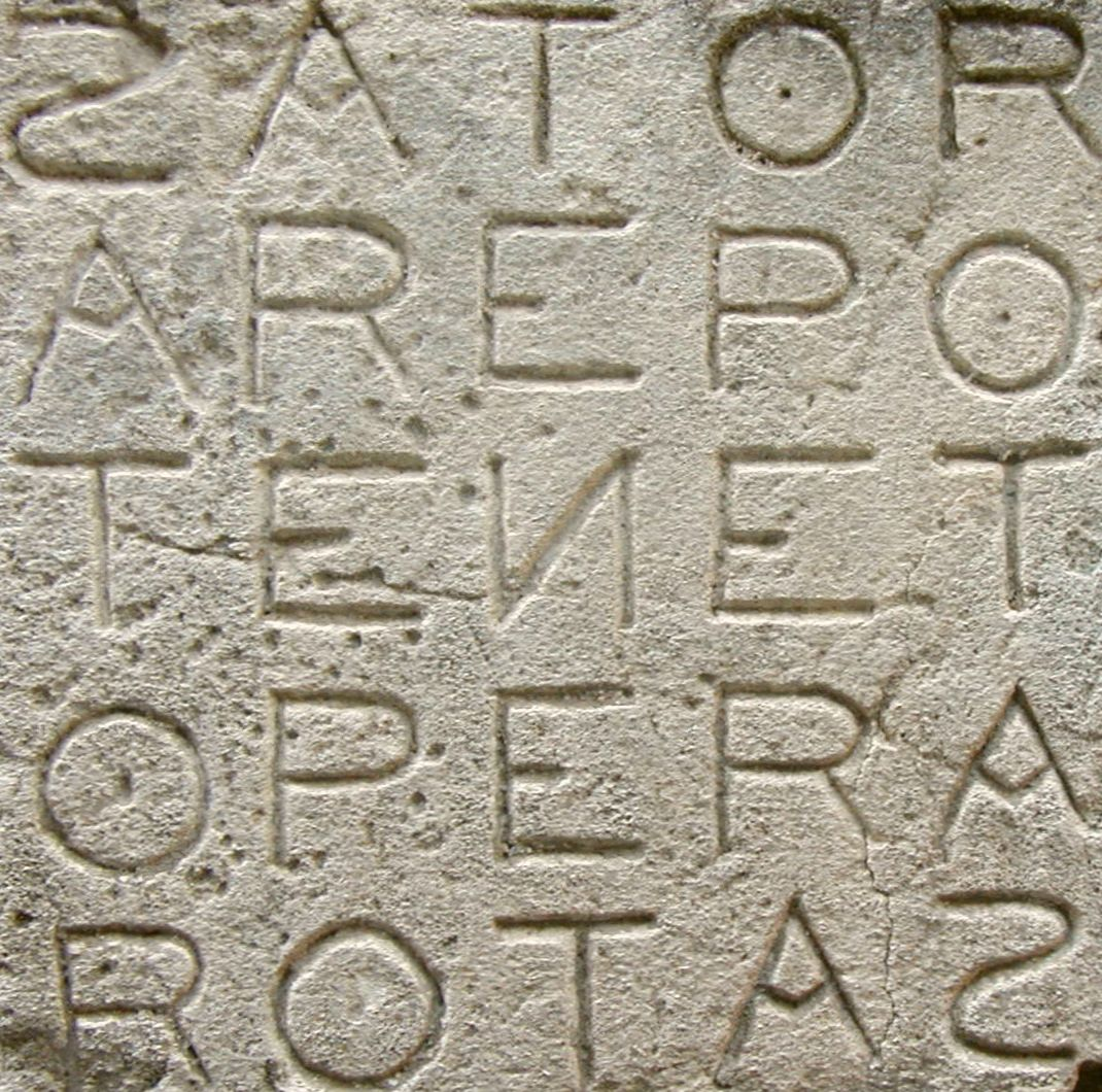 Sator square Sator Arepo Tenet Opera Rotas (word square, palindrome) in Oppède (France). The letters S and N are reversed like for an ambigram.